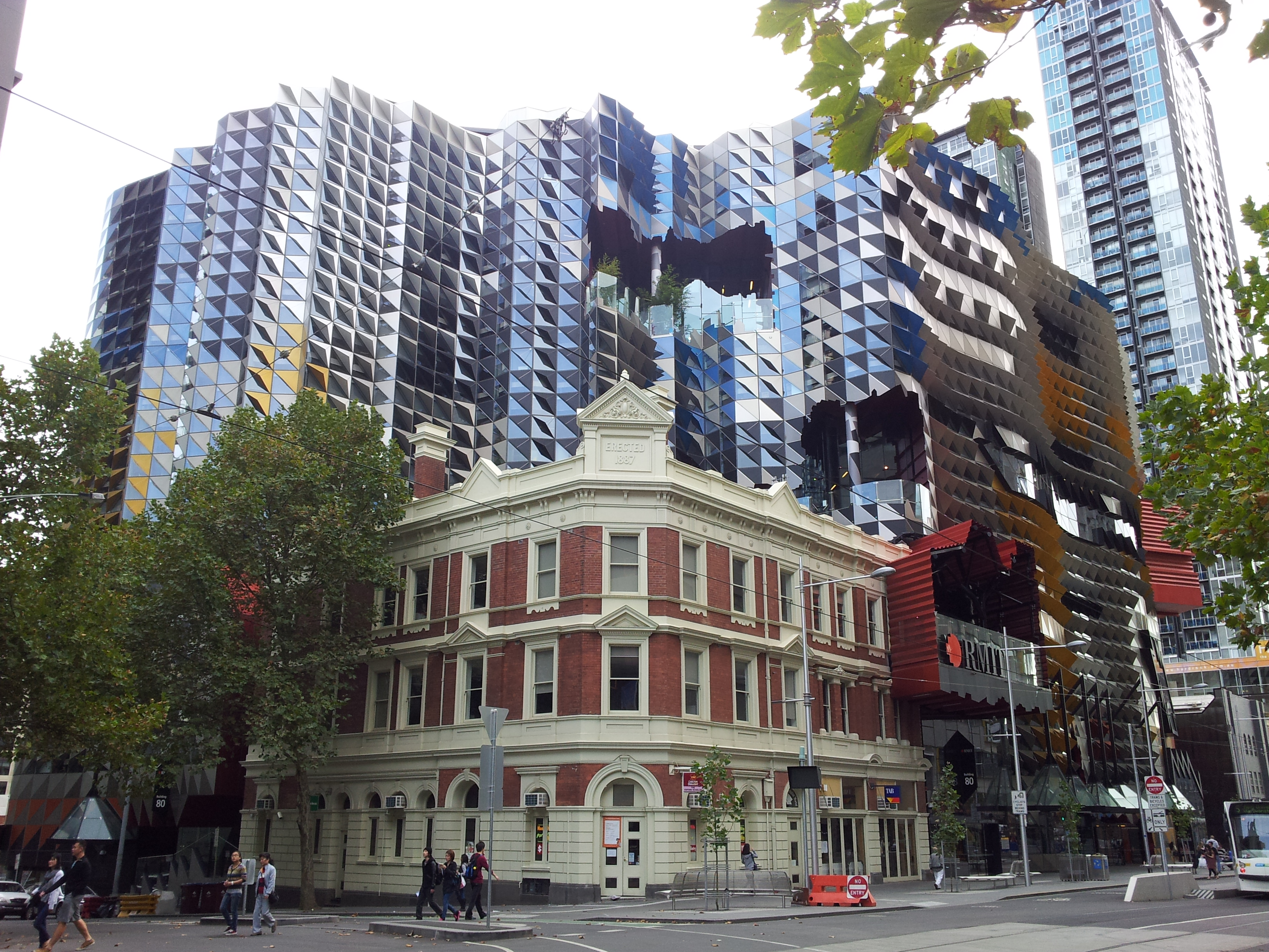 Photo